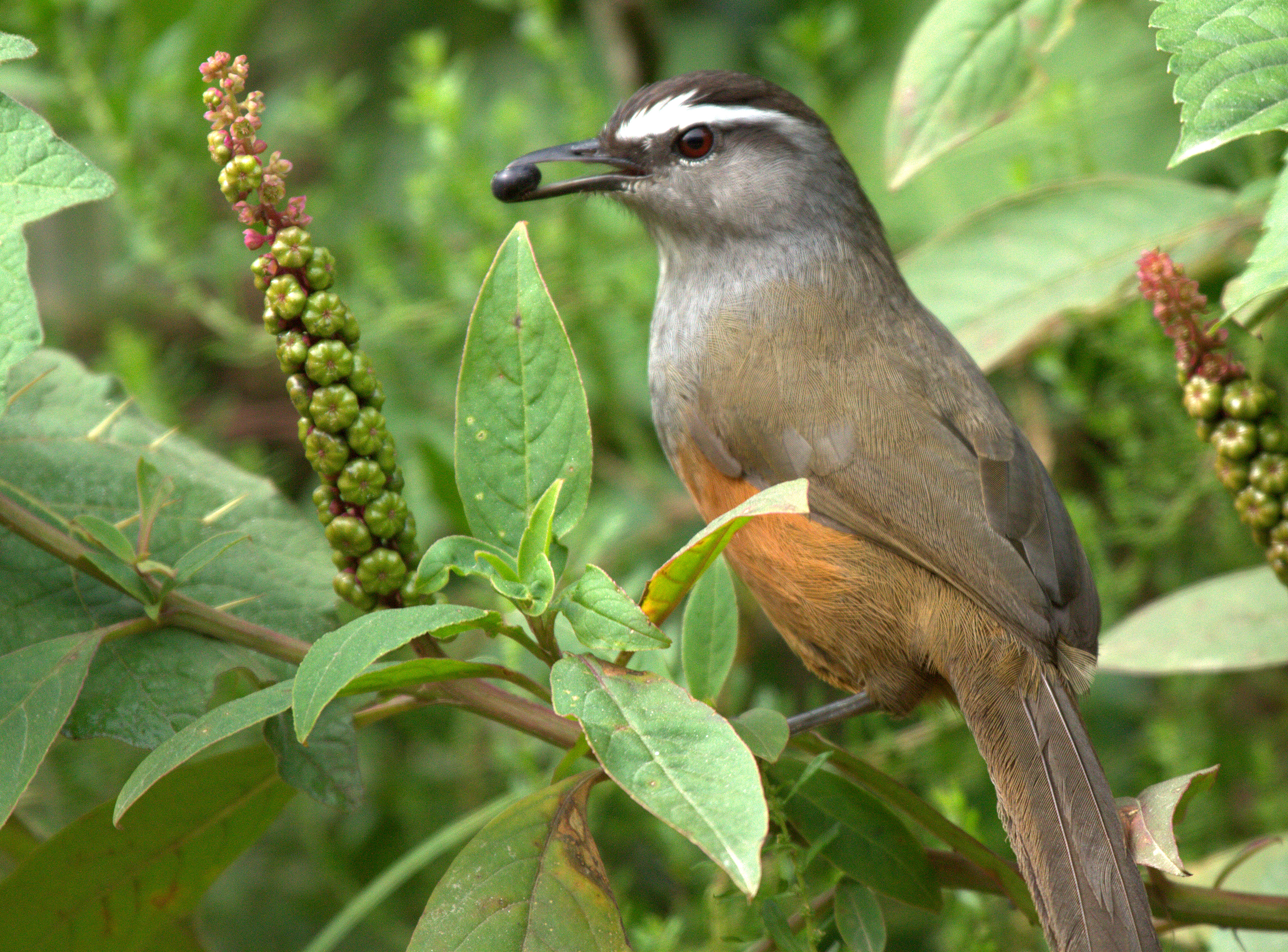 Kerala Laughingthrush (Trochalopteron fairbanki; location needed for more precise identification - this would appear like T. f. fairbanki rather than T. f. meridionale)